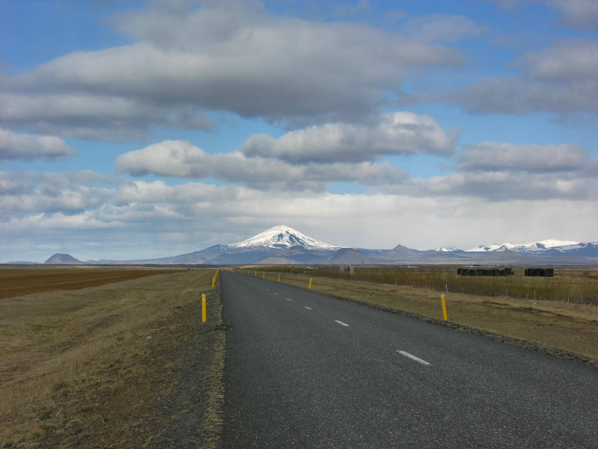 Iceland, Hekla and Búrfell from road 268